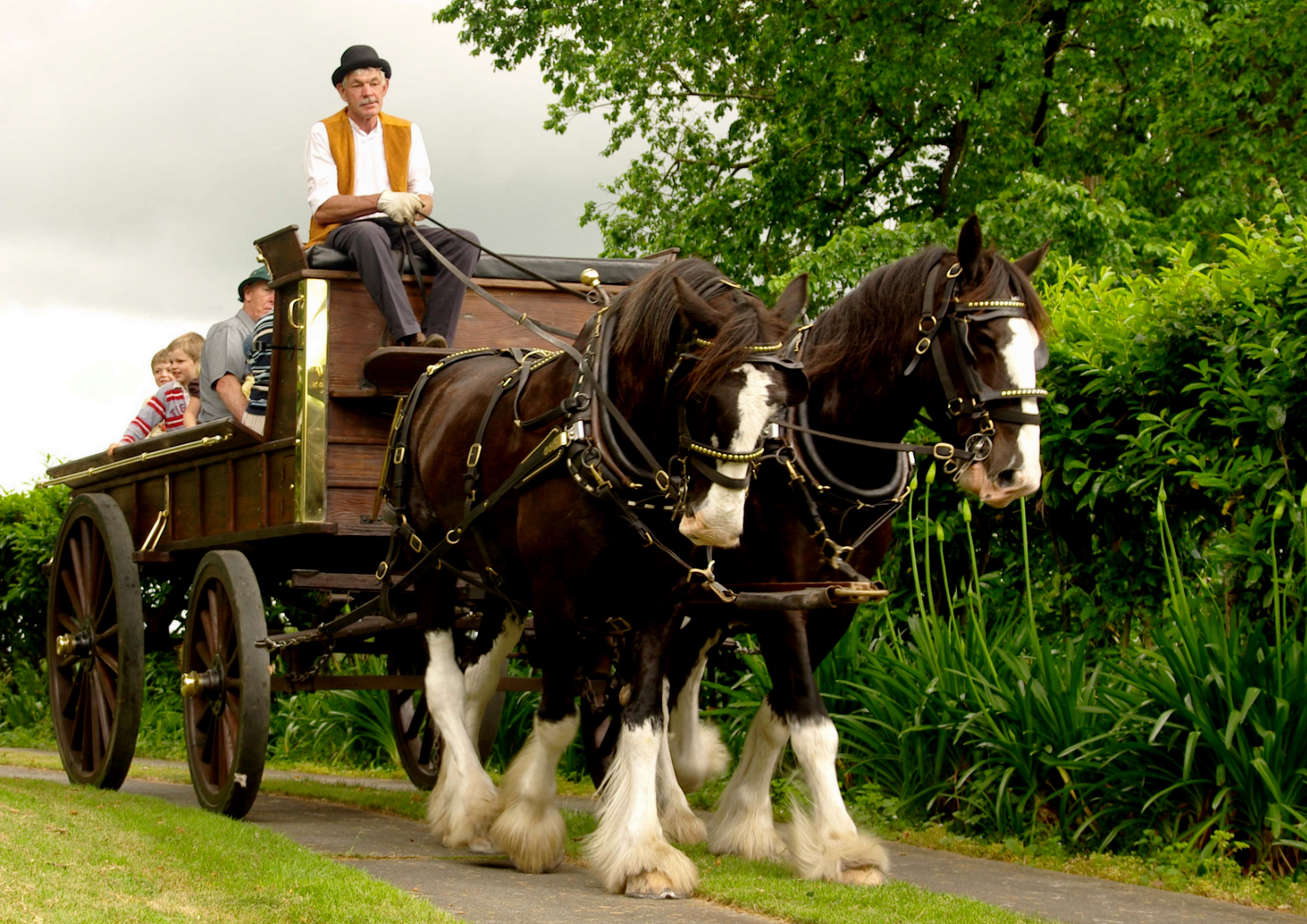 The Pirongia Clydesdale horses were at the Monavale Homestead 100th Anniversary celebrations. The two horses, their wagon and owner driver were part of the original team of the DB Clydesdale Dominion Breweries that travelled through out NZ promoting DB beer.